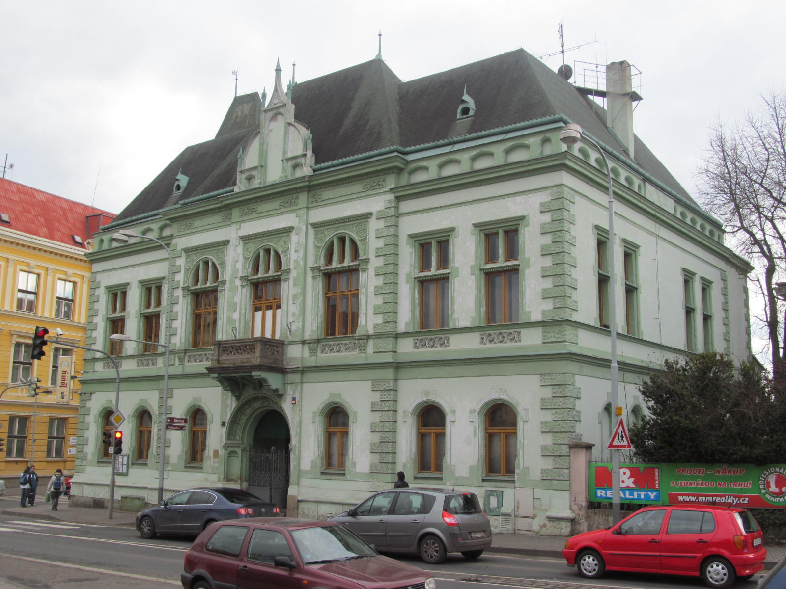 Gymnasium in Louny